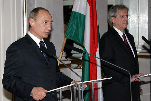 BUDAPEST. Joint press conferense with Hungarian President Laszlo Solyom.